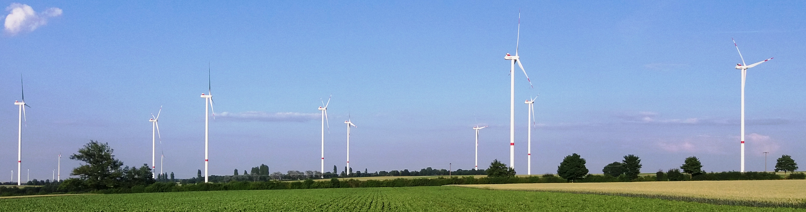 Wind farm BENO (Bechenheim, Erbes-Büdesheim, Nack and Offenheim).